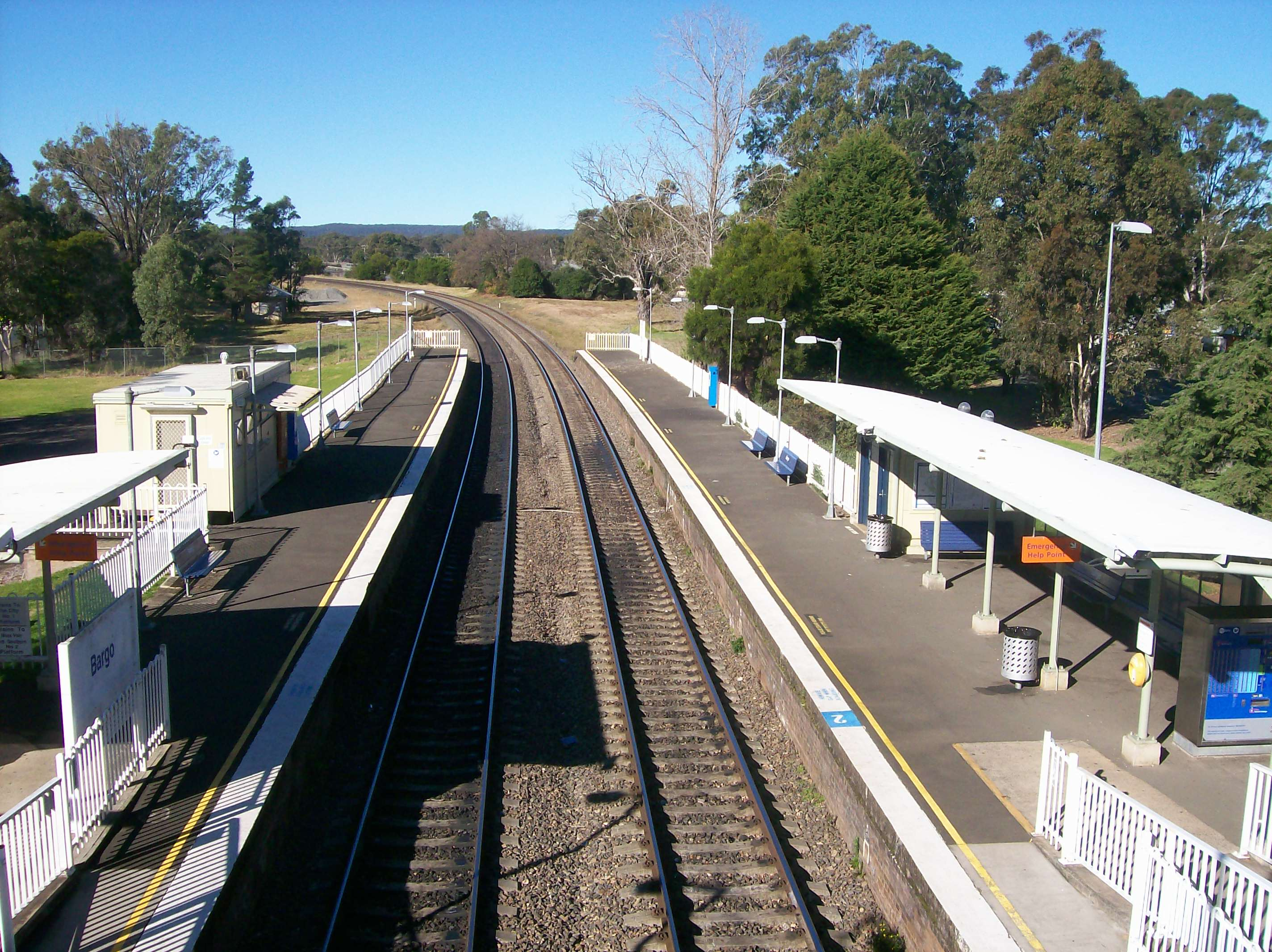 Bargo railway station